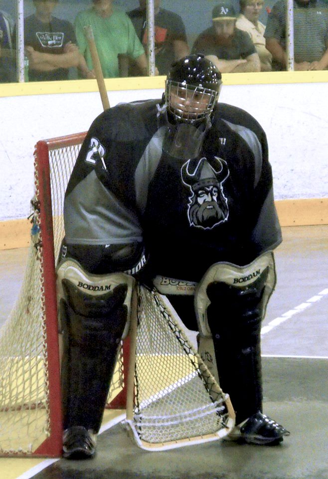 These images of Ontario Junior B Lacrosse Action action during the 2014 season are taken by Devan Mighton.